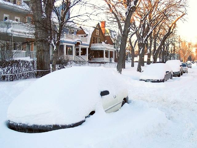 Winnipeg street after two snowstorms